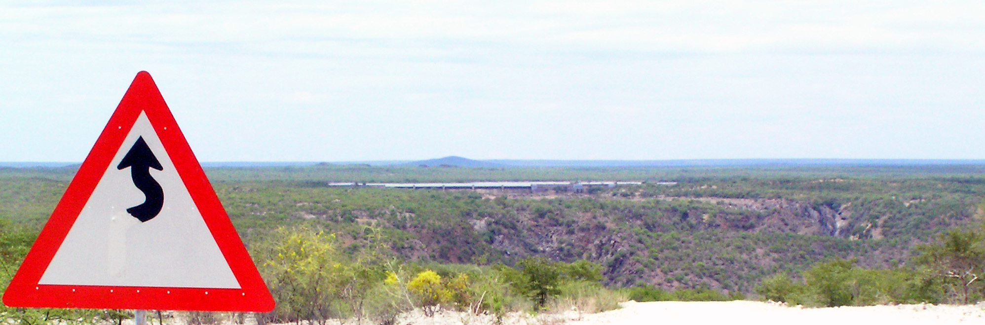 Ruacana Diversion Weir on the Cunene river in Angola for the Ruacana Hydro Power Station in Namibia, taken from the Namibian side of the border.